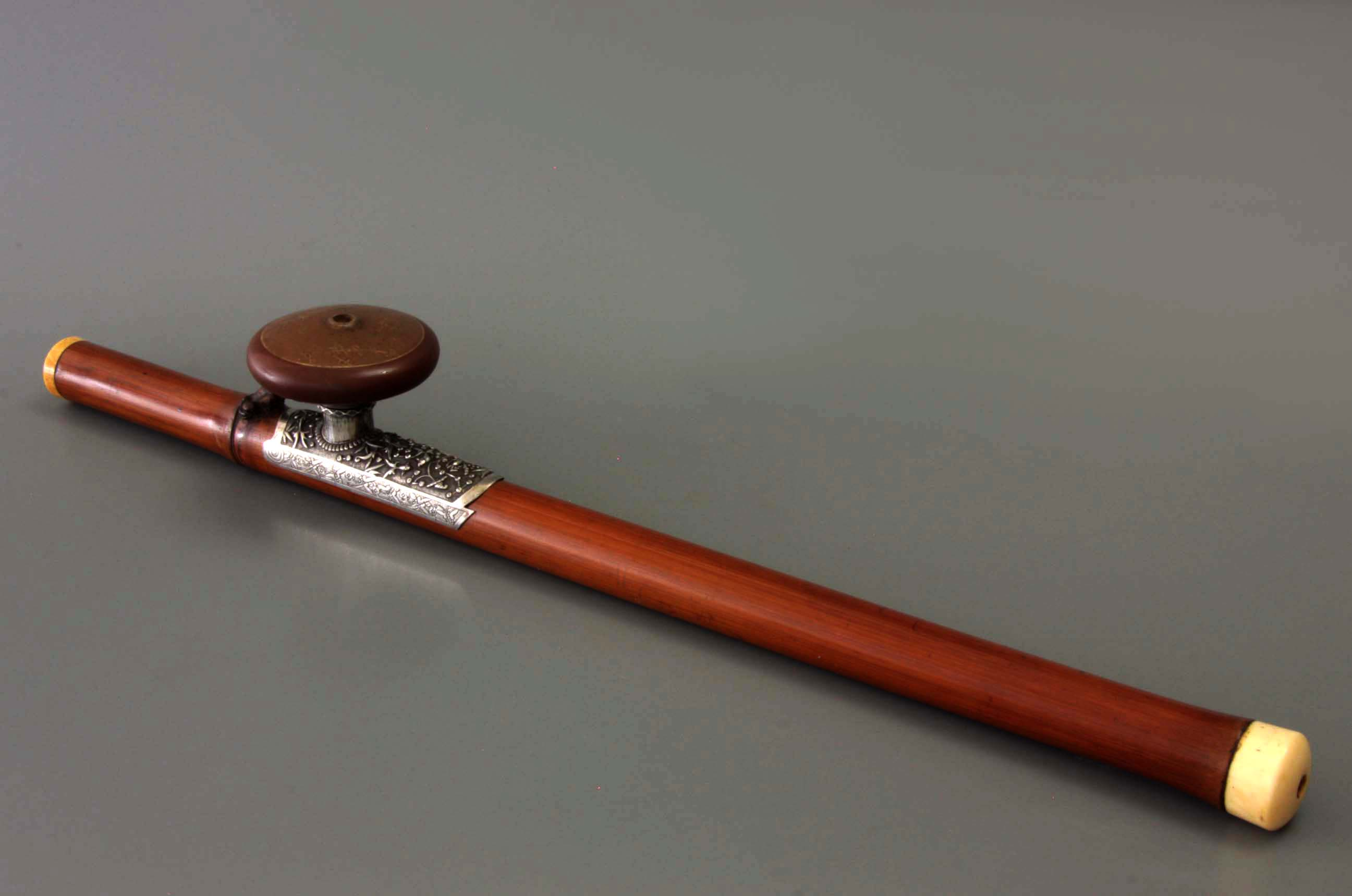 Typical opium pipe consisting of a bamboo tube with ivory ends, a worked silver saddle and a sferical stoneware pipe bowl.